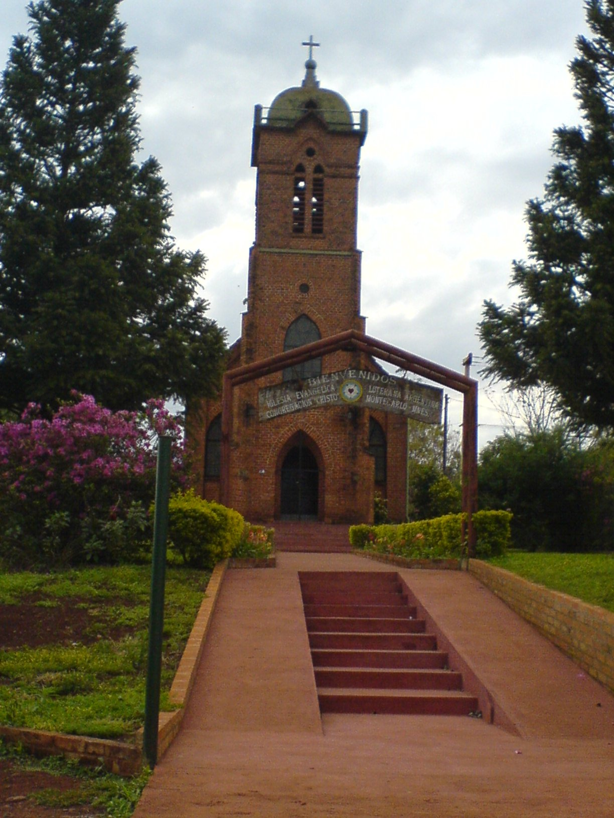 Lutheran Church (Iglesia Evangélica Luterana Argentina, IELA) in Montecarlo, Misiones, Argentina